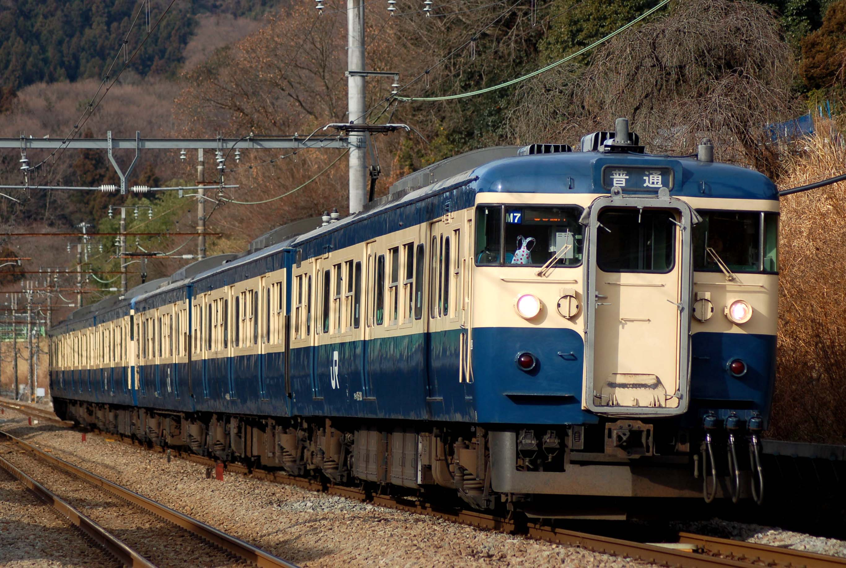 JR East(previously JNR) 115 series electric car(Suka-color), Chuo line.